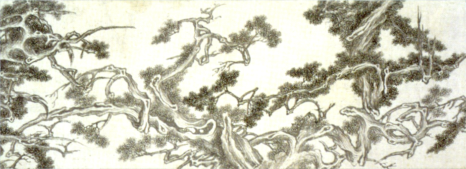 The Seven Junipers (detail), ink on paper by Wen Zhengming (Wen Cheng-Ming), Ming dynasty, 1532, Honolulu Museum of Art, accession 1666.1a